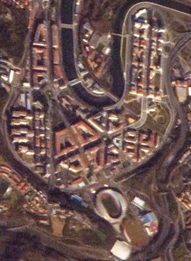 Amara Berri and Loiolako Erriberak, Donostia-Saint Sebastian, Gipuzkoa, Basque Country